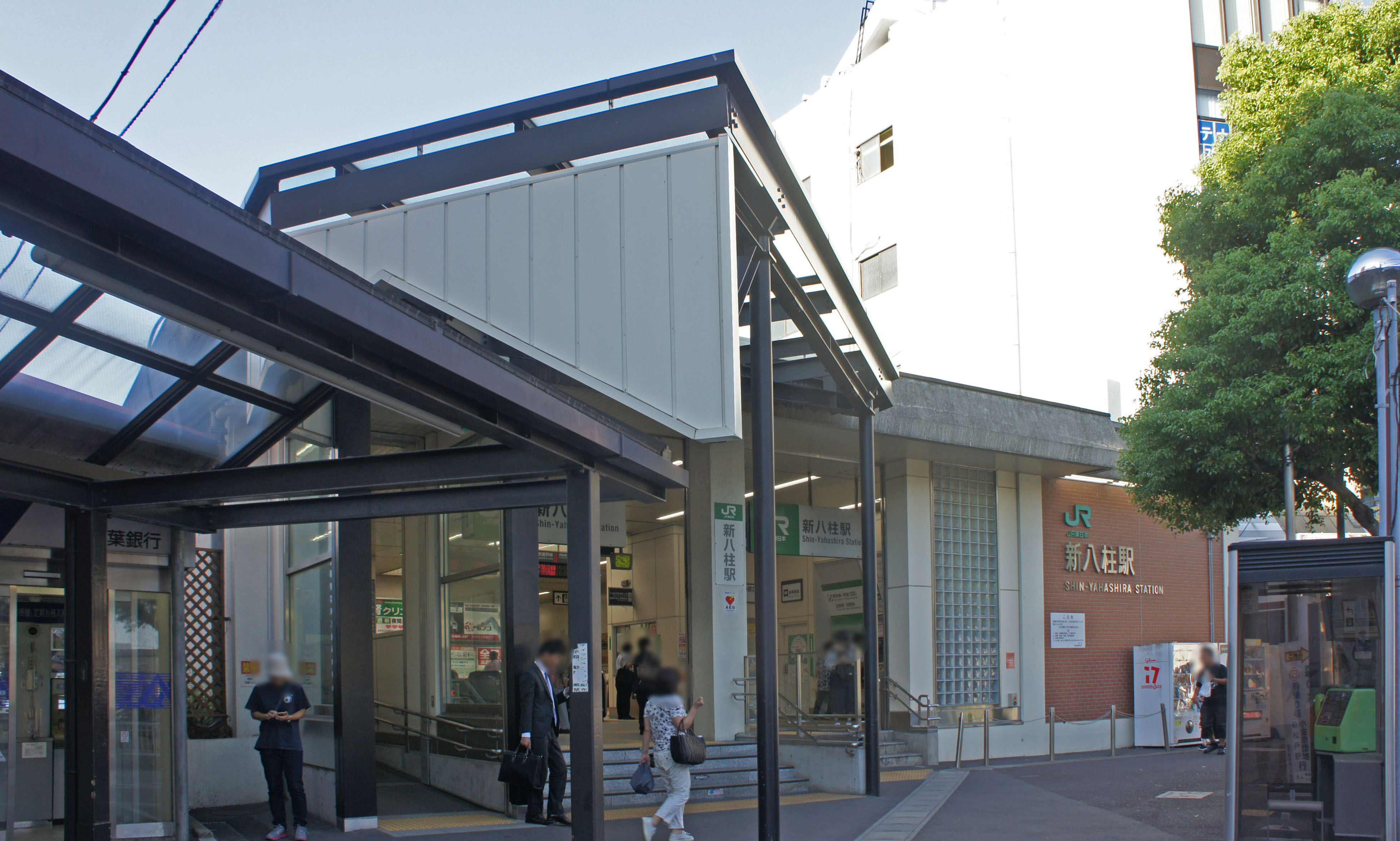 Station building of JR Musashino-Line Shin-Yahashira Station